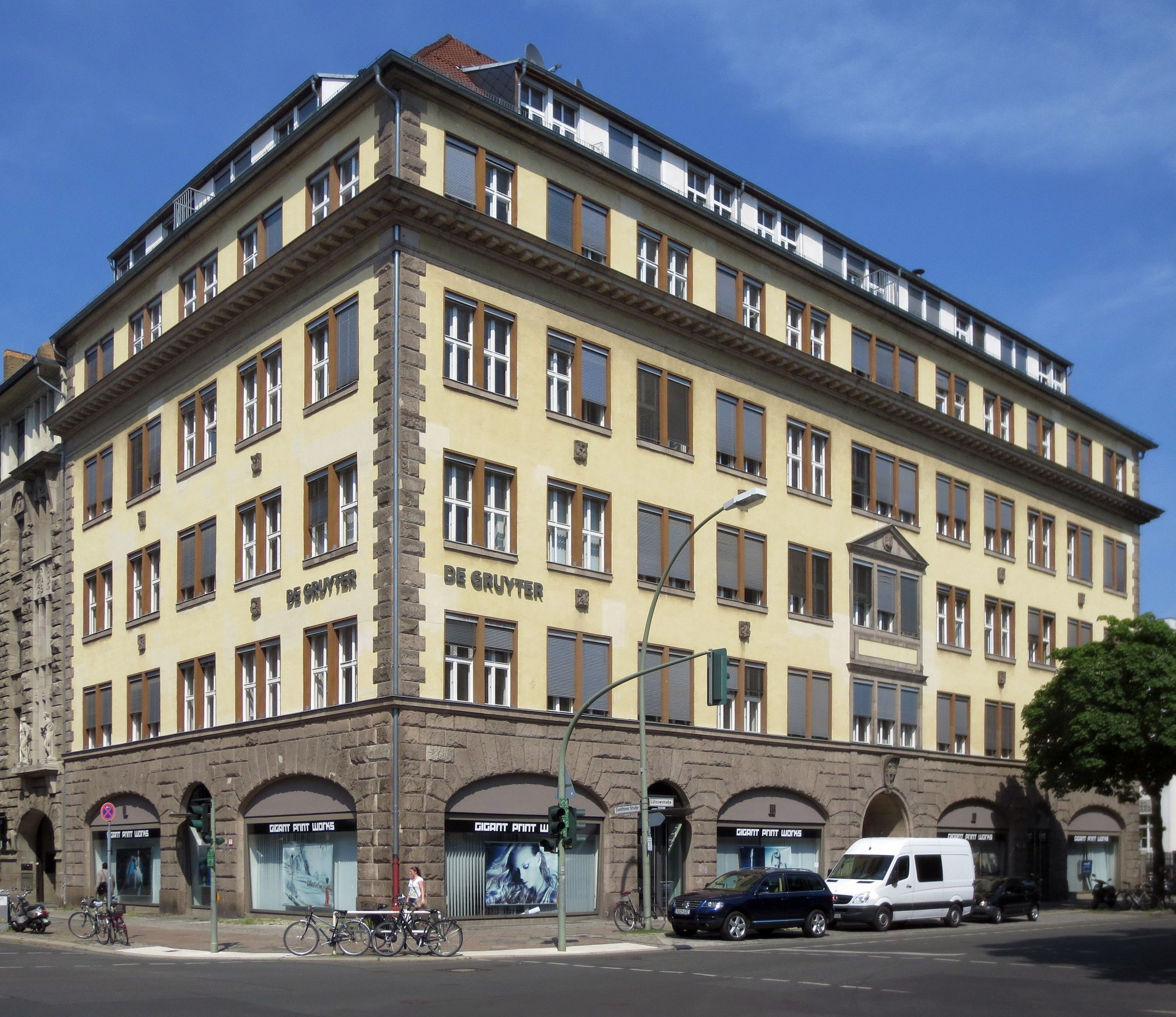 The Rütgershaus in Berlin-Tiergarten, Lützowstraße 33-36 / Genthiner Straße 15 (on the left), was constructed from 1910 to 1911 following a design by Hermann Dernburg. It has been listed as a cultural heritage monument.